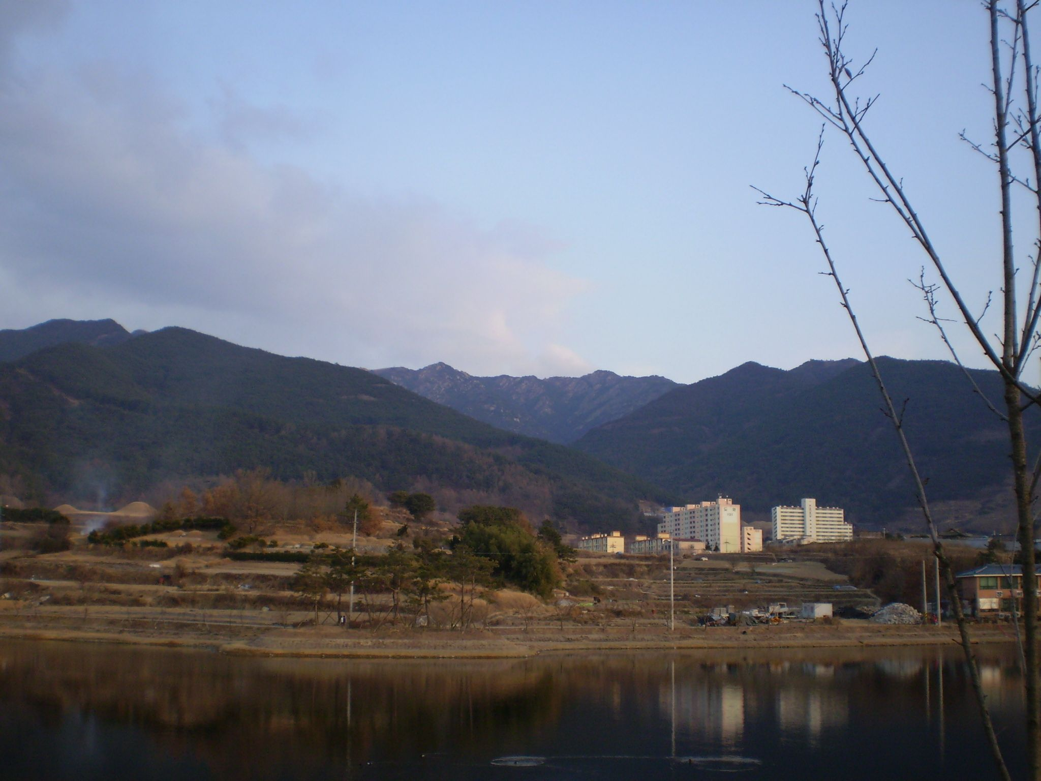 The mountain Hwawangsan overlooking the town center of Changnyeong, Gyeongsangnam-do, South Korea.